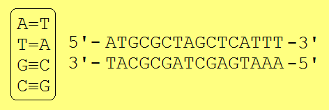 Author: Giorgio Gonnella User:Ggonnell Complementarity of the DNA